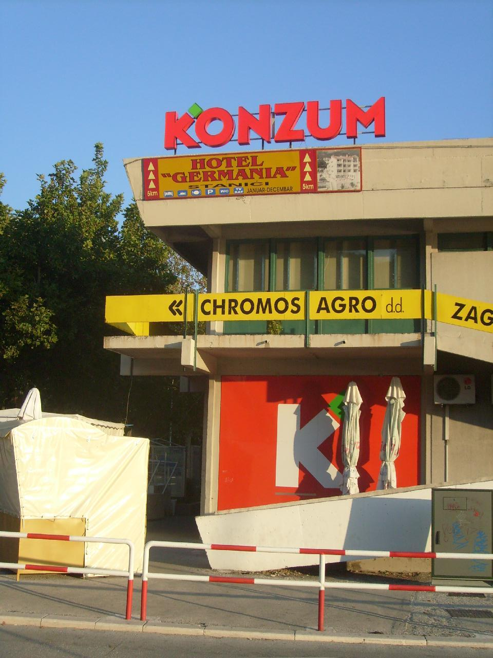 Konzum in the Omiš, Croatia.